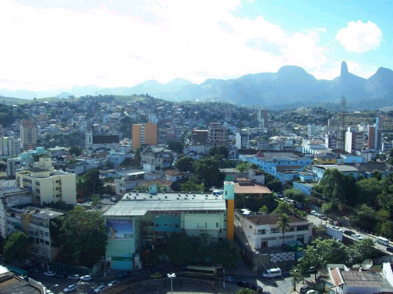 The city with the "Itabira" behind it